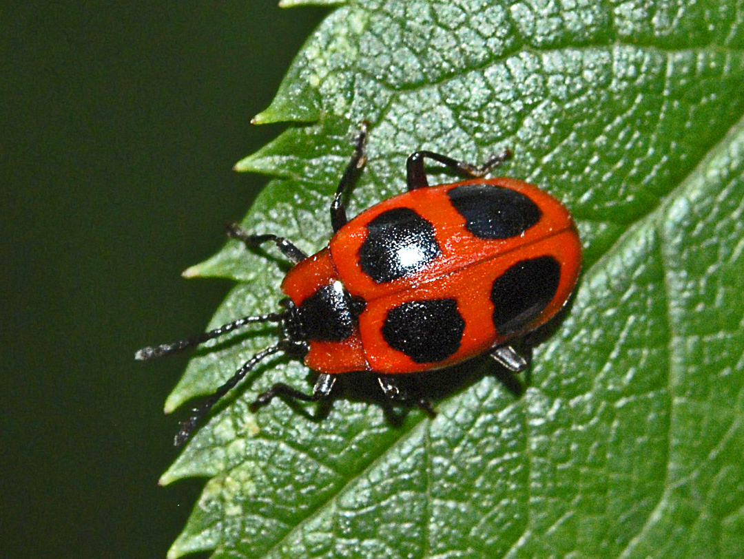 Endomychus coccineus. Passo del Faiallo, Genova, Italy